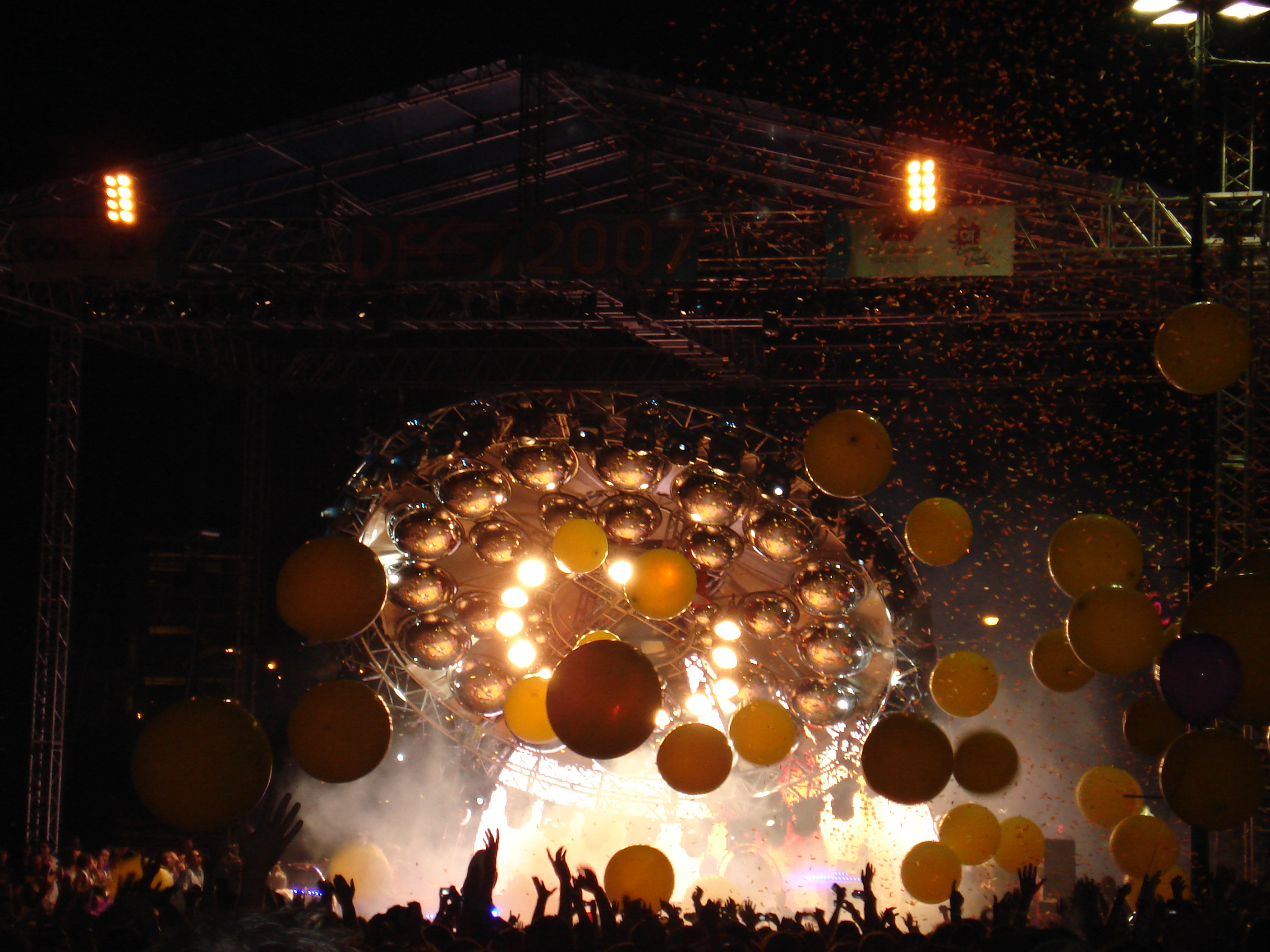 Flaming Lips, at the Dfest 2007, Tulsa This is the stage prop named in the article that was used for "U.F.O. at the zoo"